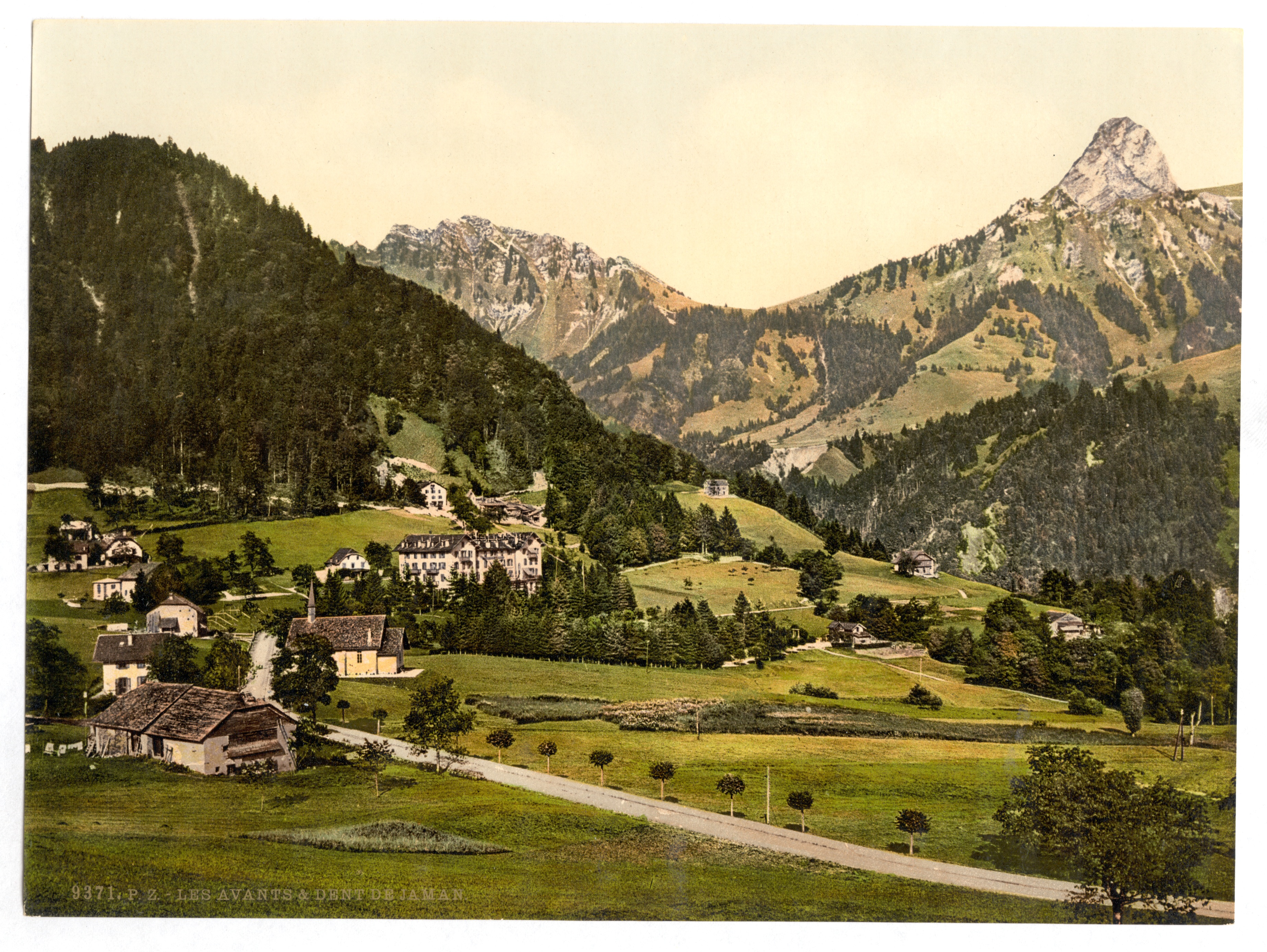 Forms part of: Views of Switzerland in the Photochrom print collection.; Print no. "9371".; Title from the Detroit Publishing Co., Catalogue J-foreign section, Detroit, Mich. : Detroit Publishing Company, 1905.